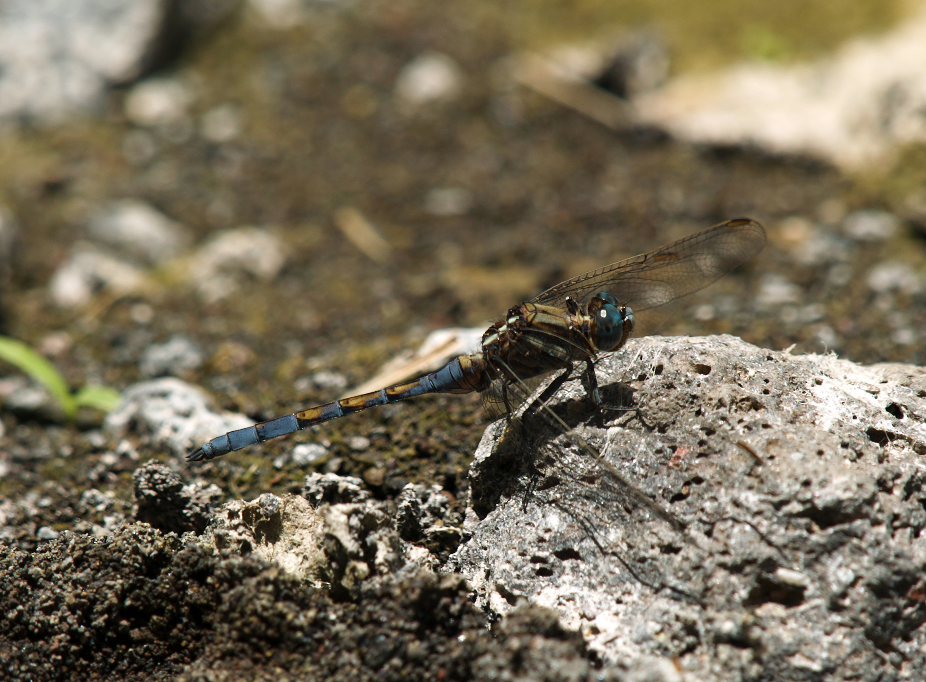 Epaulet Skimmer (Orthetrum chrysostigma), young male; Tenerife, Spain